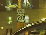 A picture of the eastern terminus sign of U.S. Route 20 in Boston, MA